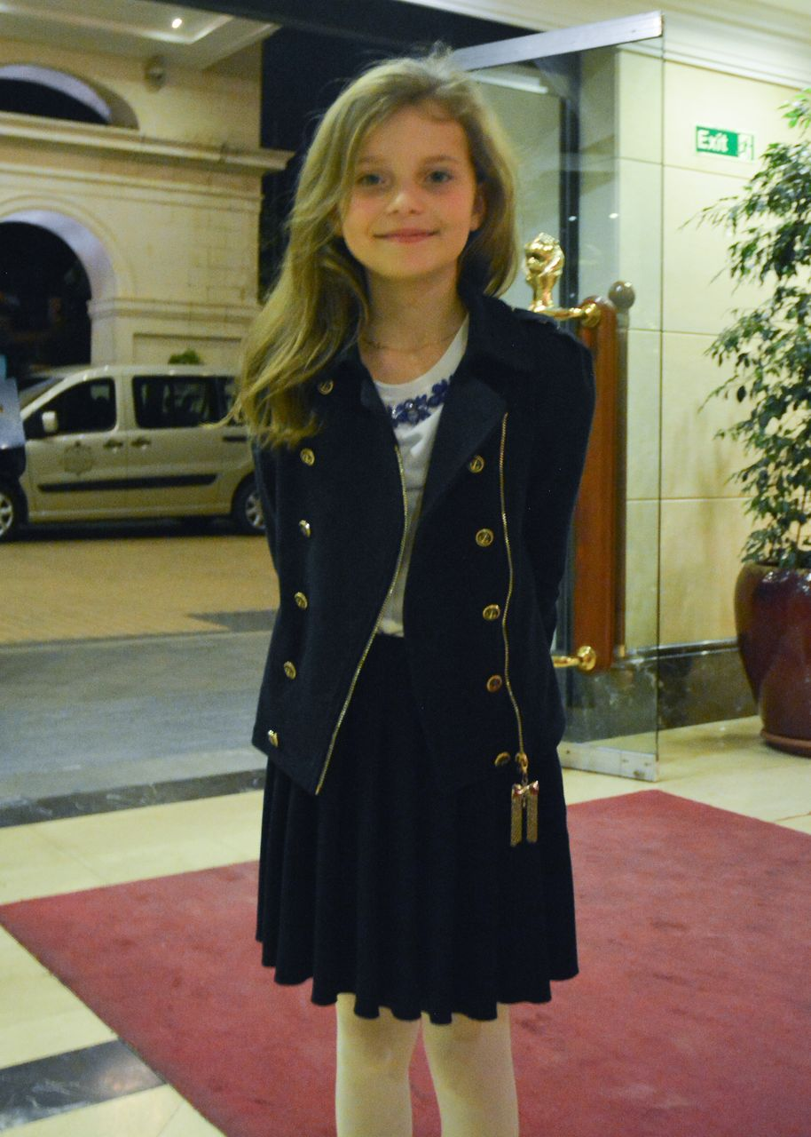 Alisa Kozhikina (Russia), partisipant of Junior Eurovision 2014